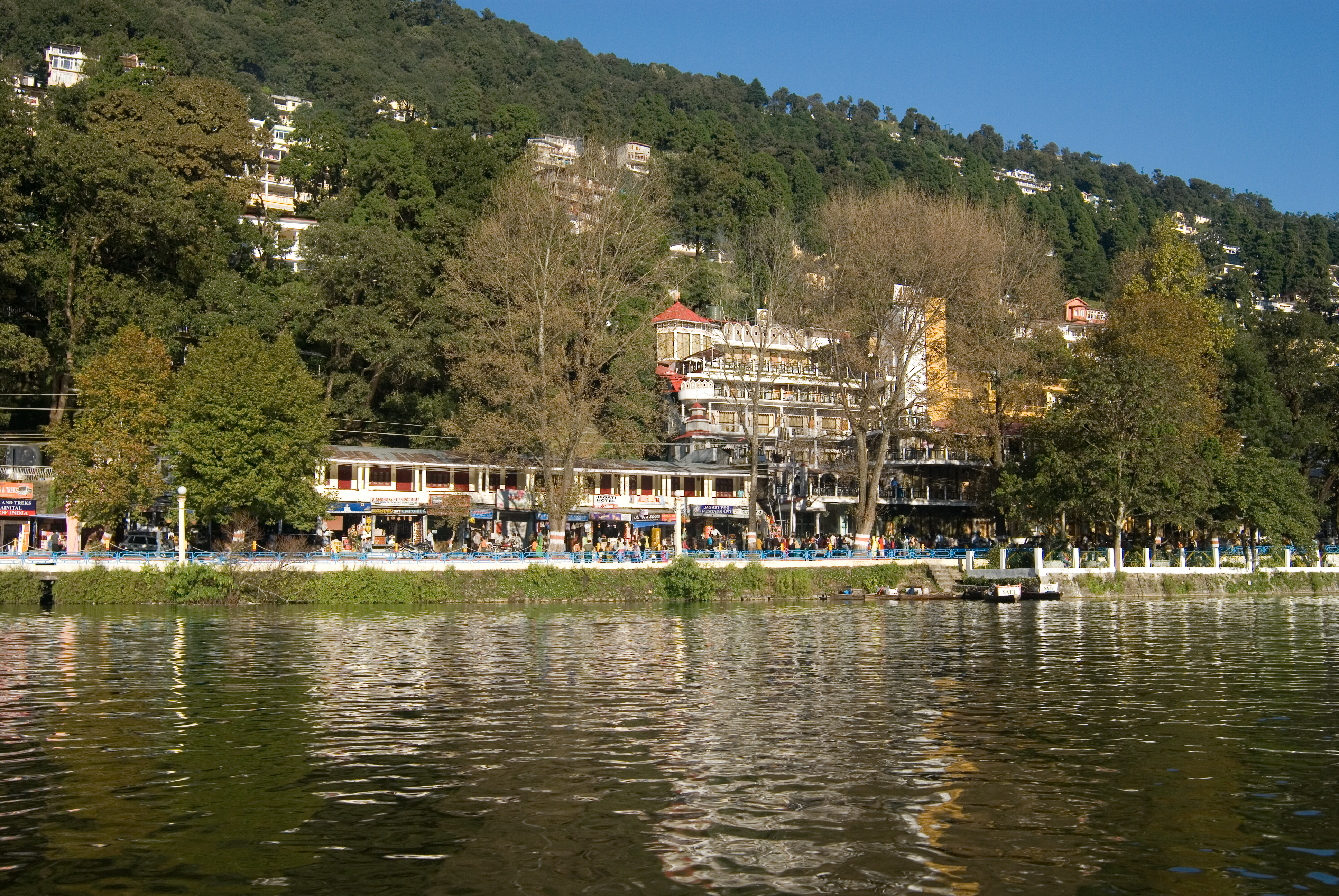 A view of Nainital Mall Road from the Naini lake, Uttarakhand.